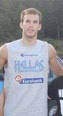 calathes in karpenissi